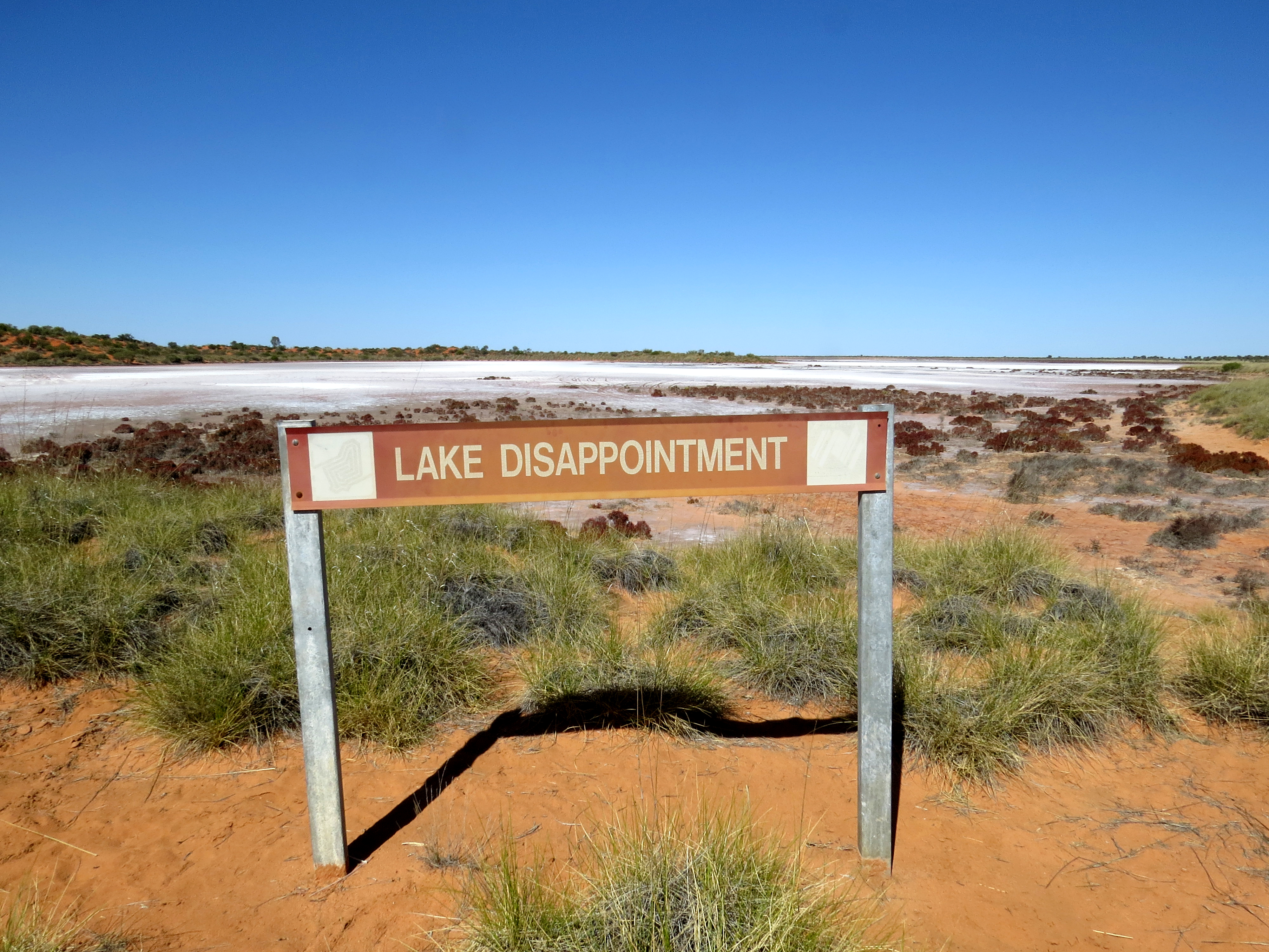 Lake Disappointment, a salt lake in Western Australia, taken in 2015